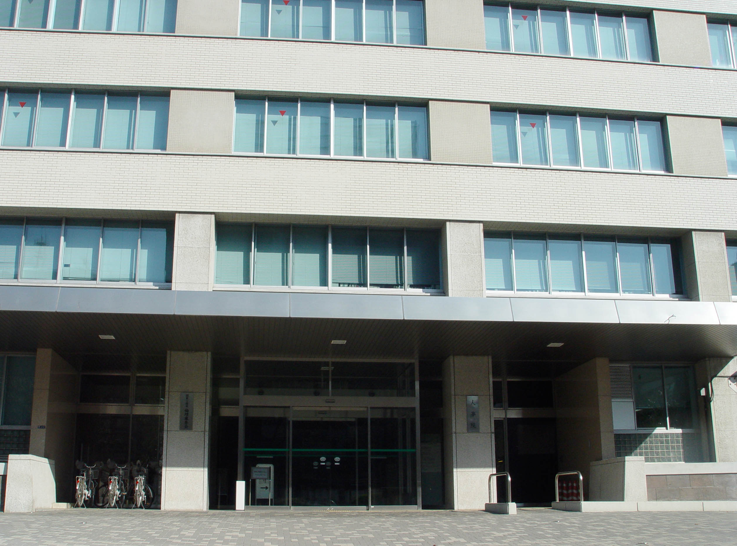 Public office building of the The National Personnel Authority and National government employee Ethical Review Board, Japan 人事院、国家公務員倫理審査委員会庁舎